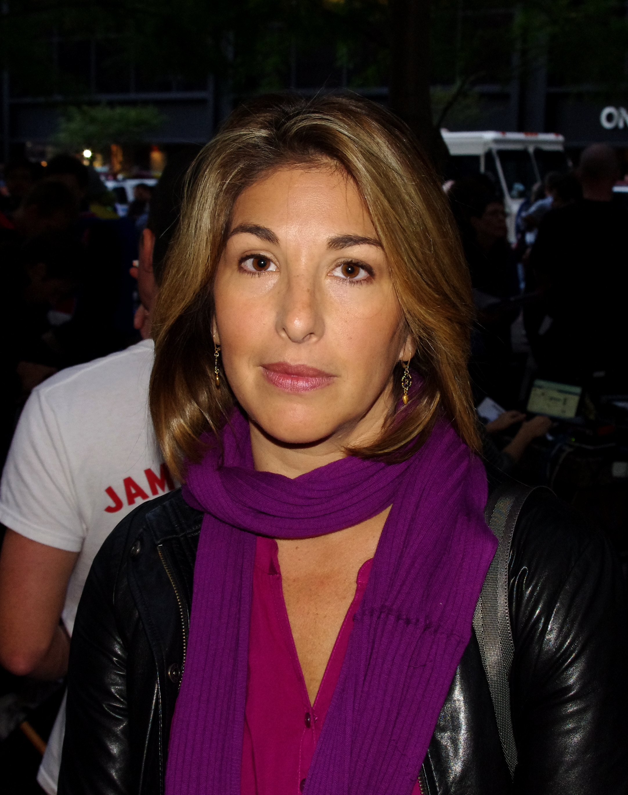 Naomi Klein on Thursday, Day 21, of Occupy Wall Street. Klein led an open forum at the event.